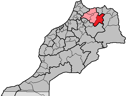 Location of the province Guercif within the region Taza-Al Hoceima-Taounate, Morocco. In total, Morocco has 16 regions, subdivided into 62 provinces and 13 prefectures.